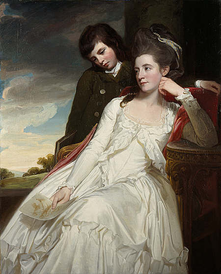 Jane, Duchess of Gordon, née Maxwell and her son George, Marquess of Huntly by George Romney